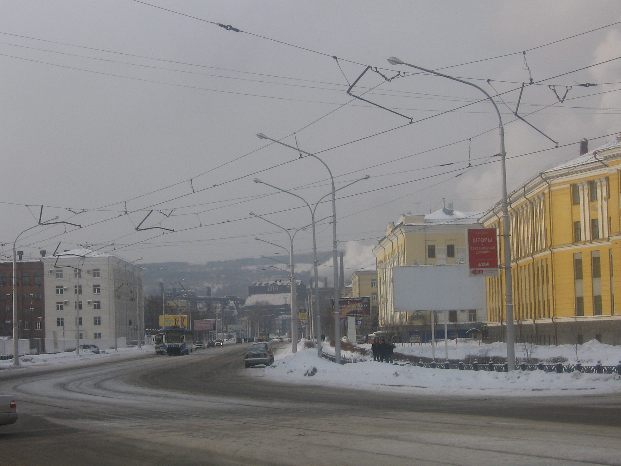 Panoramic view of Ulitsa Ordzhonikidze in Novokuzneck (Russia).